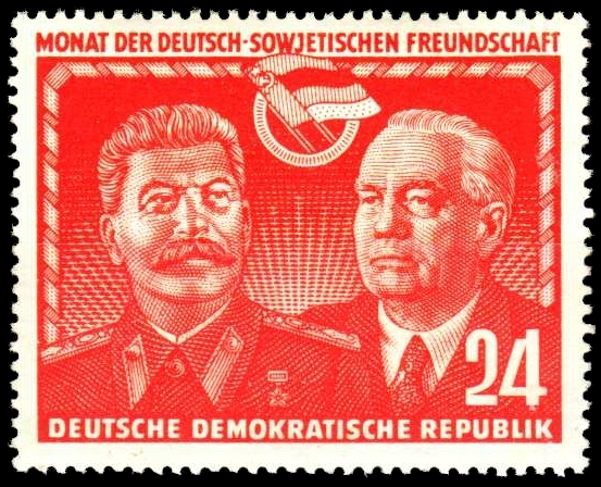 Ausgabepreis: Pfennig First Day of Issue / Erstausgabetag: Auflage: Entwurf: Druckverfahren: Michel-Katalog-Nr: Ländercode-MiNr: Licensing This file is most likely NOT in the public domain. It has been marked for review, and will be deleted in due course if the review does not find it to be in the public domain.This file was previously considered to be in the public domain as a German stamp; it is possible that it is in the public domain for other reasons, in which case a new rationale will be applied as part of the review process. See below for the previous rationale. Previous public domain rationale, no longer applicable This stamp is in the public domain in Germany because it was released by the postal administration of the German Democratic Republic or the Soviet occupation zone (Deutschen Post der DDR) whose legal successor is the Federal Republic of Germany. Thus it is an official work according to German copyright law (§ 5 Abs. 1 UrhG).